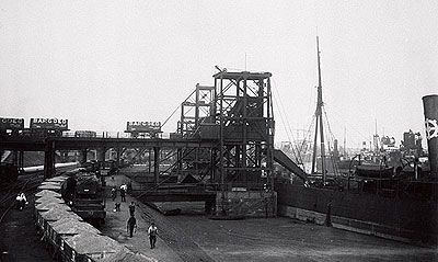 Barry Docks, Wales. Coal tip in the No.1 dock. What appears to be a solid level surface in the right foreground of this scene in is fact water — thick with coal dust!